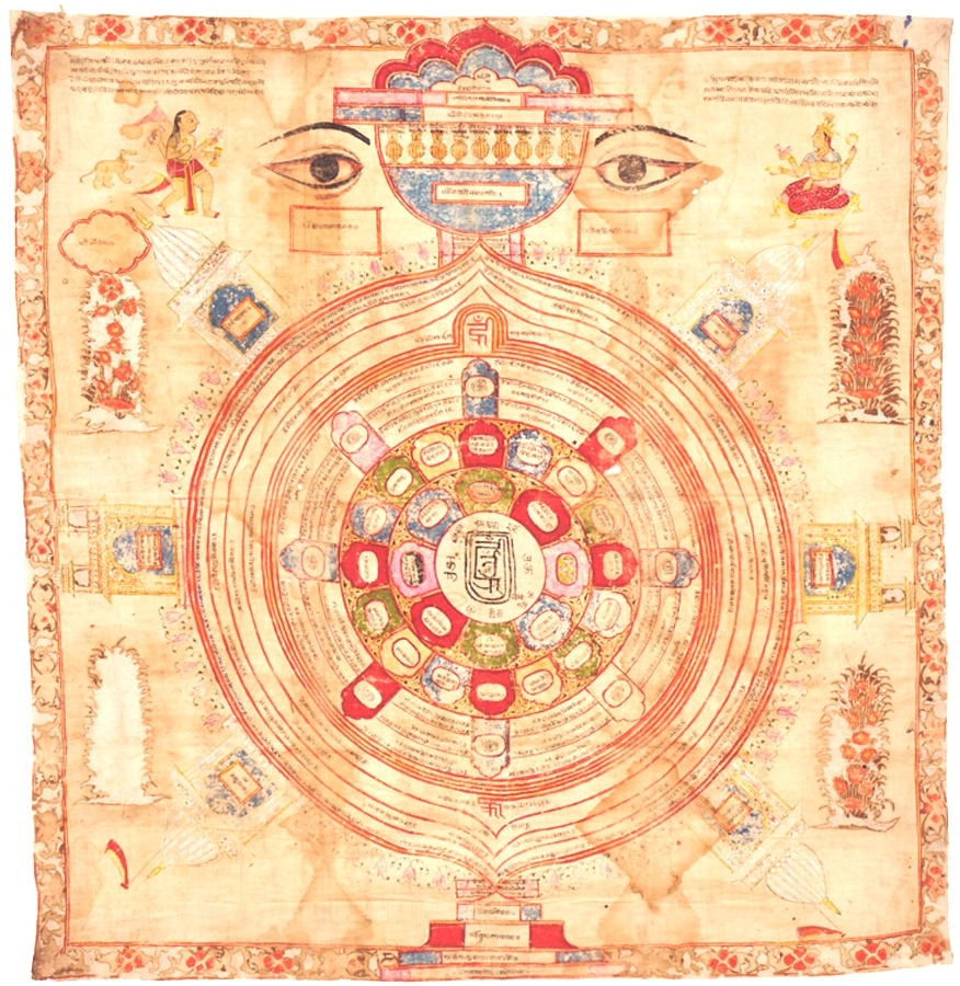 Siddhachakra, a Jain symbol, about 15th century, India